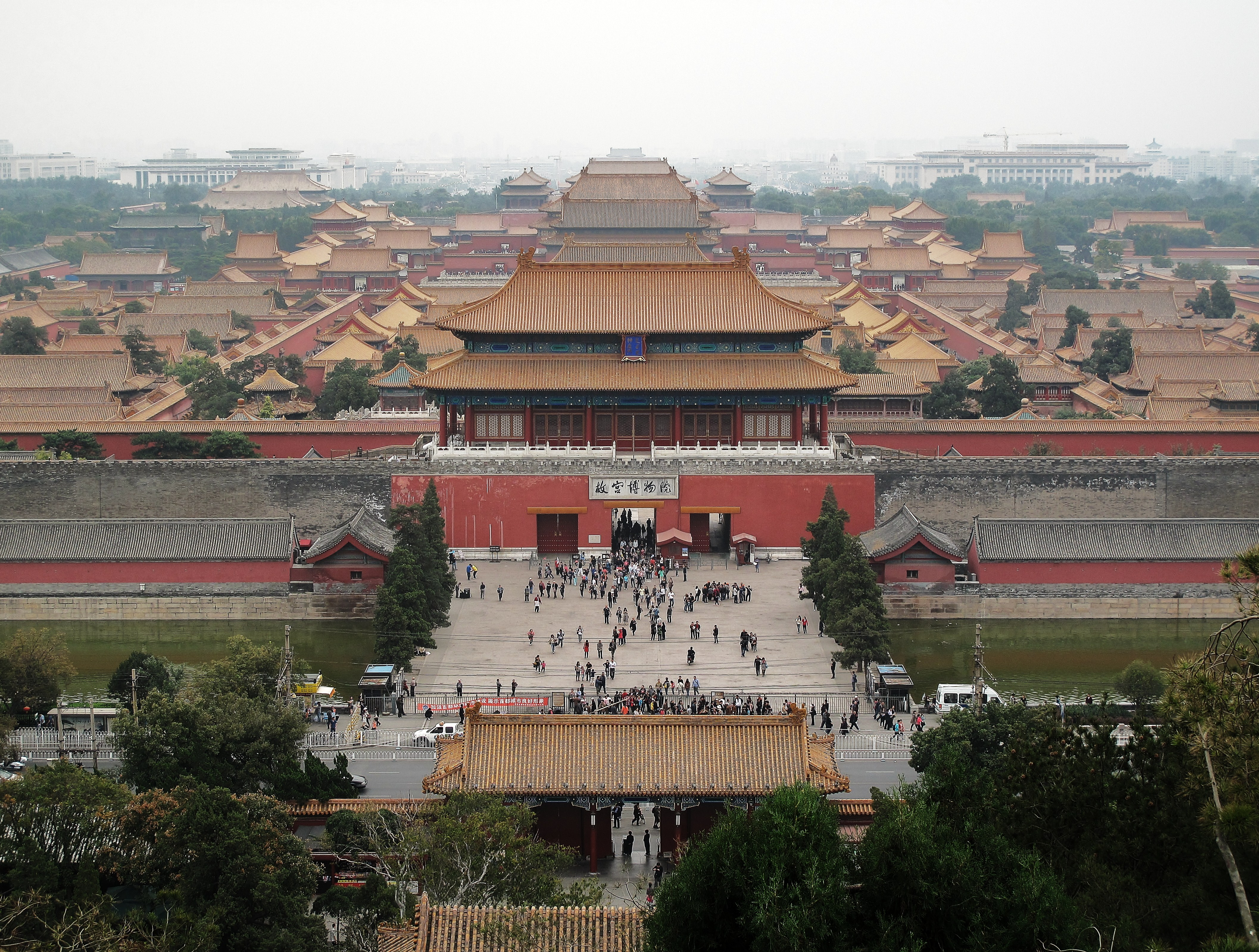 View from Jingshan Park